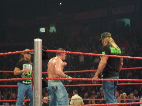 Cena Trying To Loosen Up With D-X